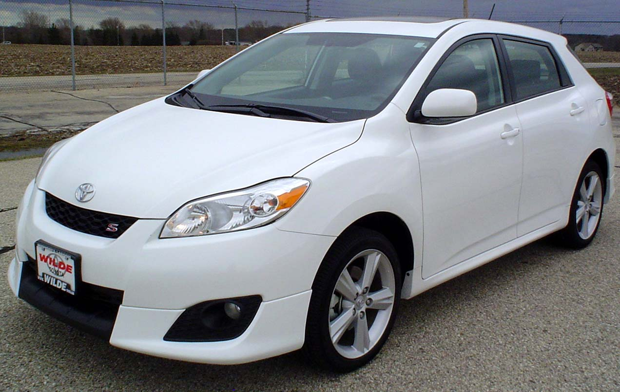 2009 Toyota Matrix photographed in USA.